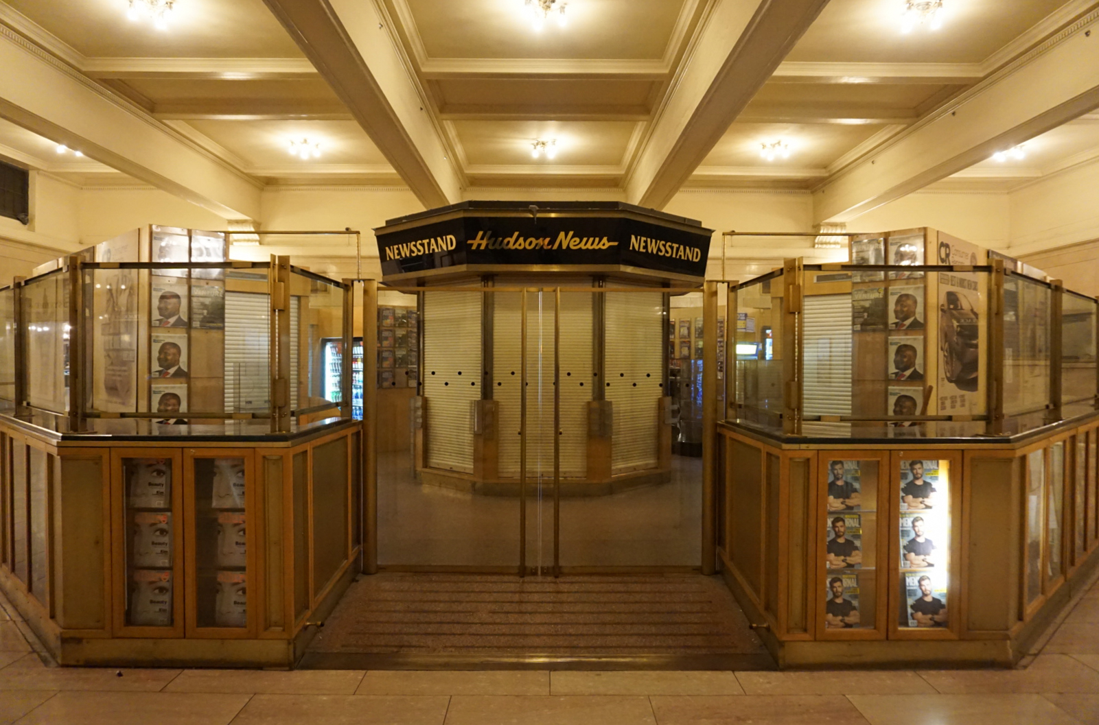 Grand Central's Biltmore Room in 2017.